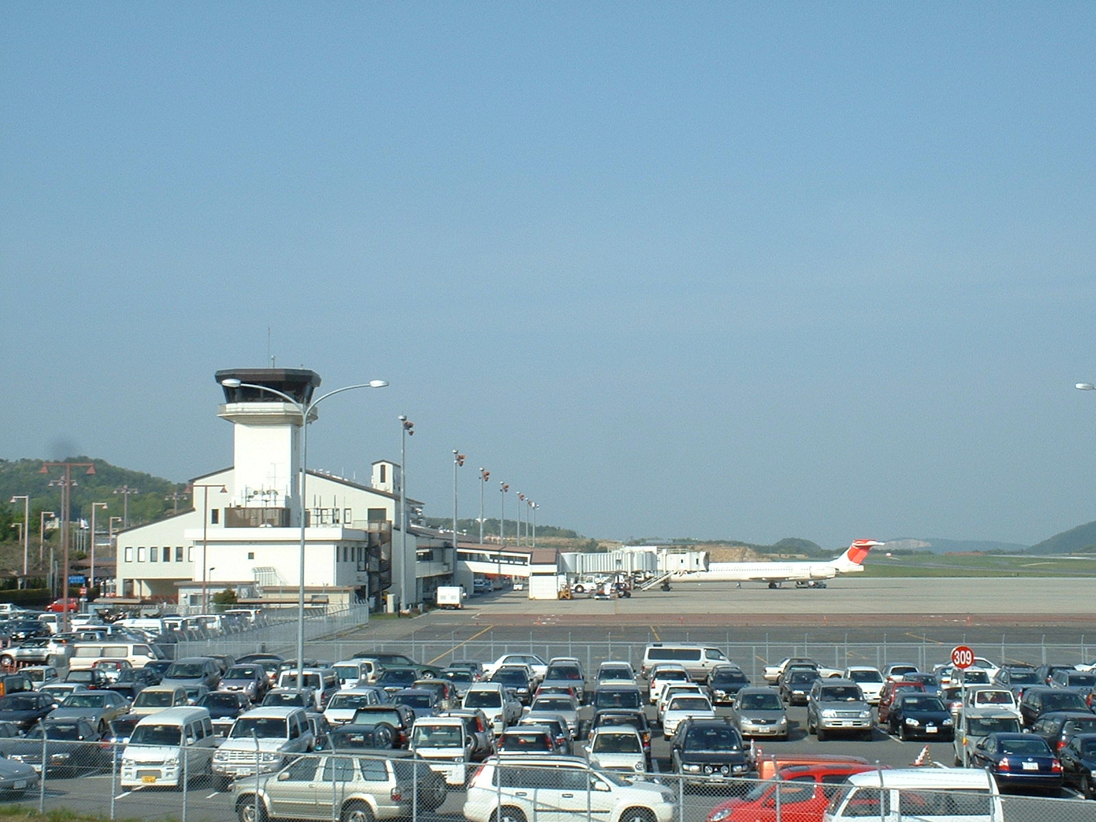 A contributor photographs it in Japanese Okayama Airport on May 4, 2006.